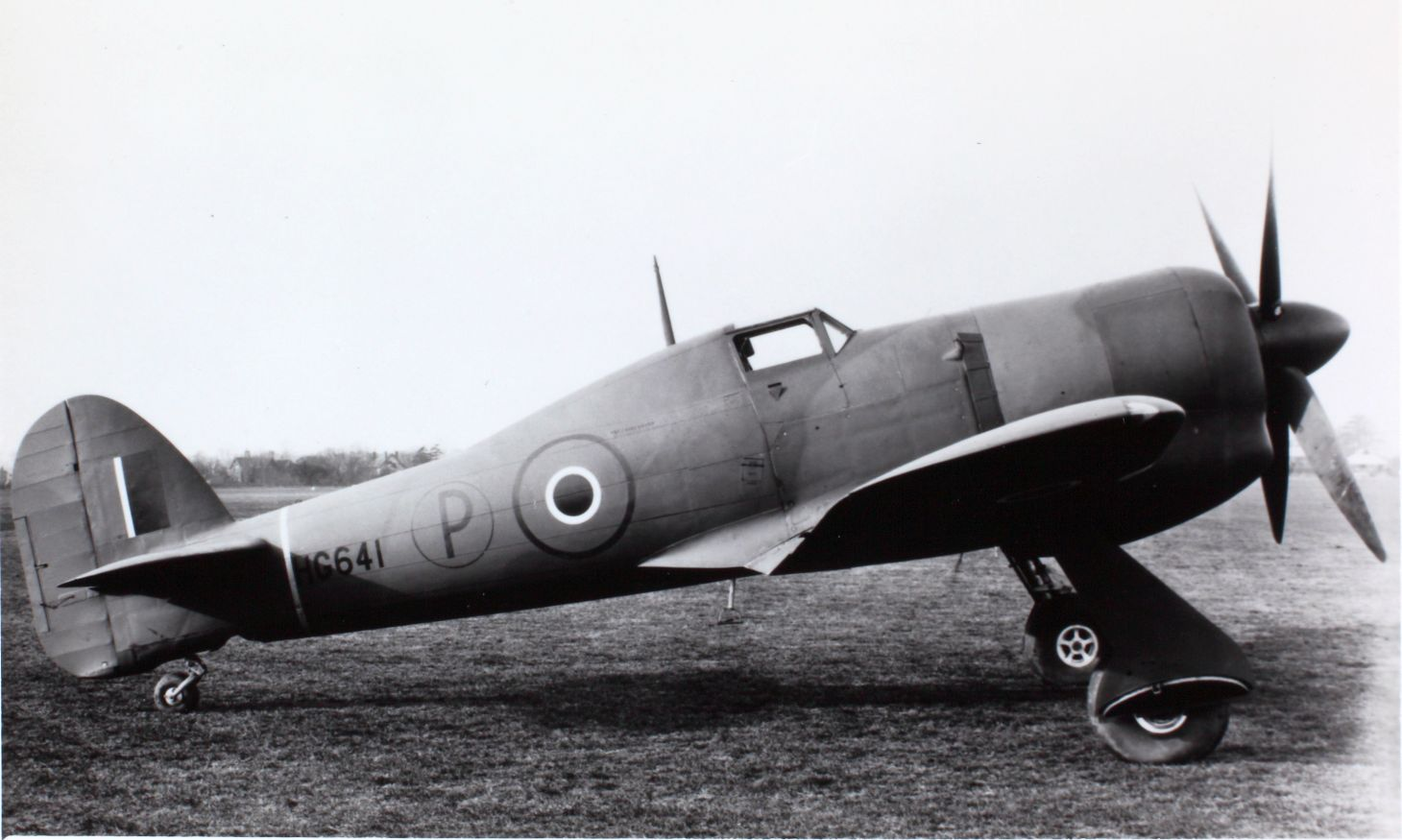 Image from the Charles Daniels Photo Collection album "British Aircraft." SOURCE INSTITUTION: San Diego Air and Space Museum Archive